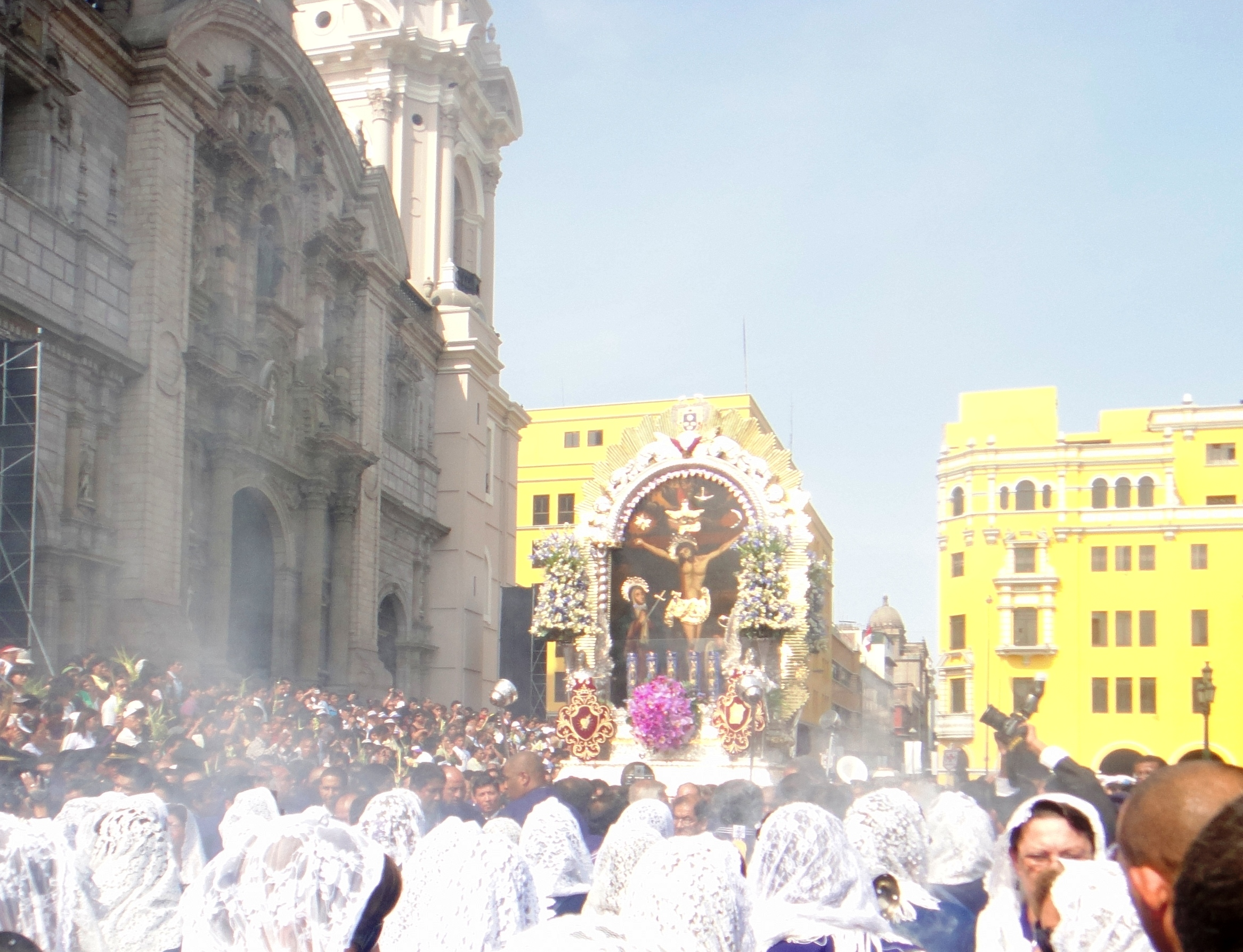 Procession of Lord of Miracles, Good Friday in Lima.